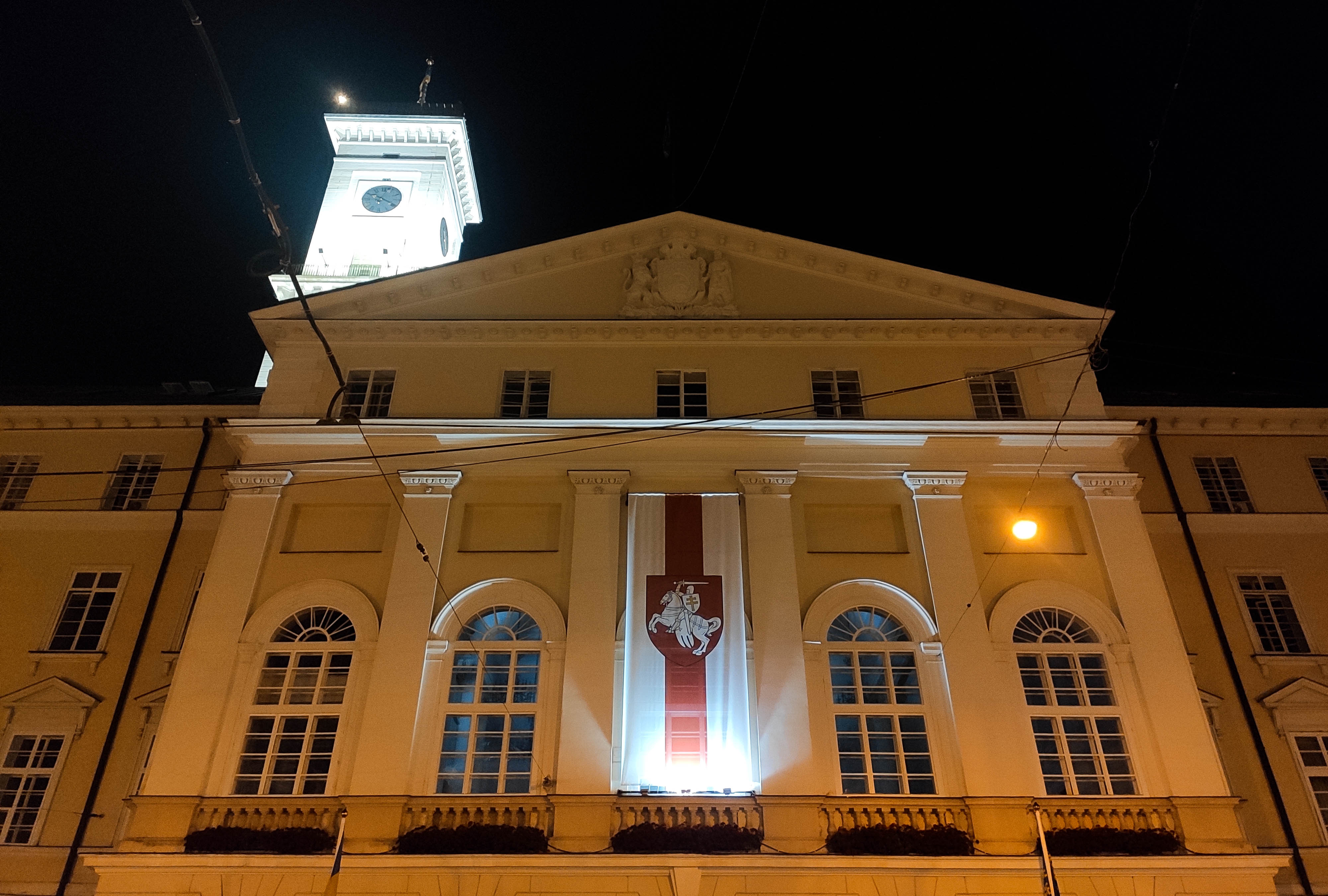 Belarusian national flag at Lviv City Hall in support of Belarusian protests in August 2020.